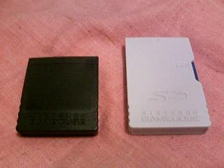 memory card 59 comparison kryss_hon